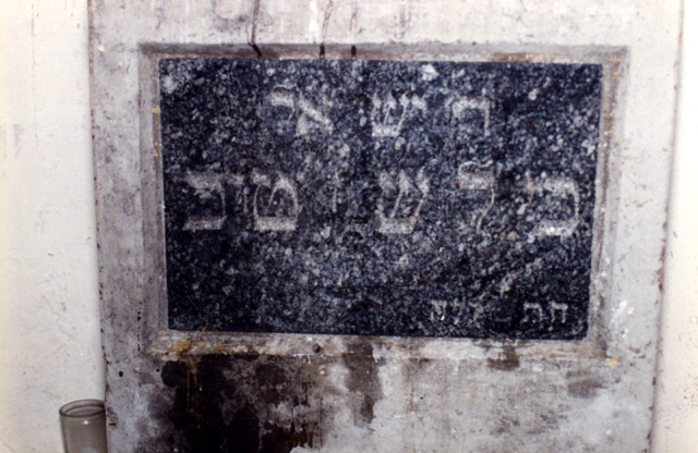 tomb of the besht הבעש"ט (before restoration in 2006-2008)